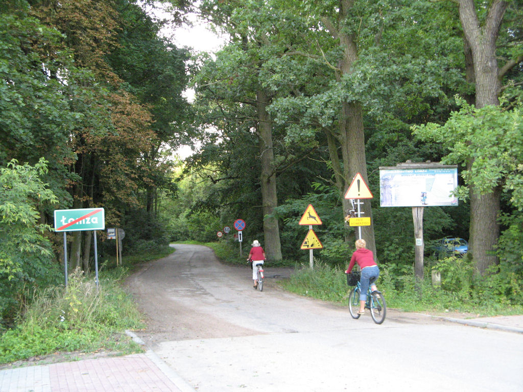 Nature reserve "Rycerski Kierz", Poland